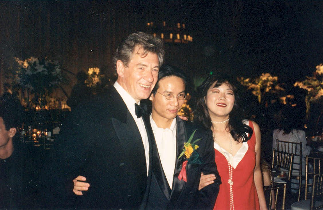 Photo taken at the 47th Emmy Awards, 9/11/94 - Governor's Ball - Permission granted to copy, publish or post but please credit "photo by Alan Light" if you can